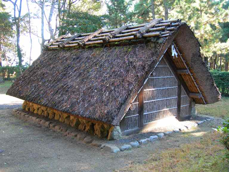 The Mishio-yakisho of Mishioden-jinja. Mishioden-jinja is the salt supplier for Jingu, Futami-cho, Ise city Mie prefecture, Japan. The brine is boiled down and becomes dible salt in the Mishio-yakisho.